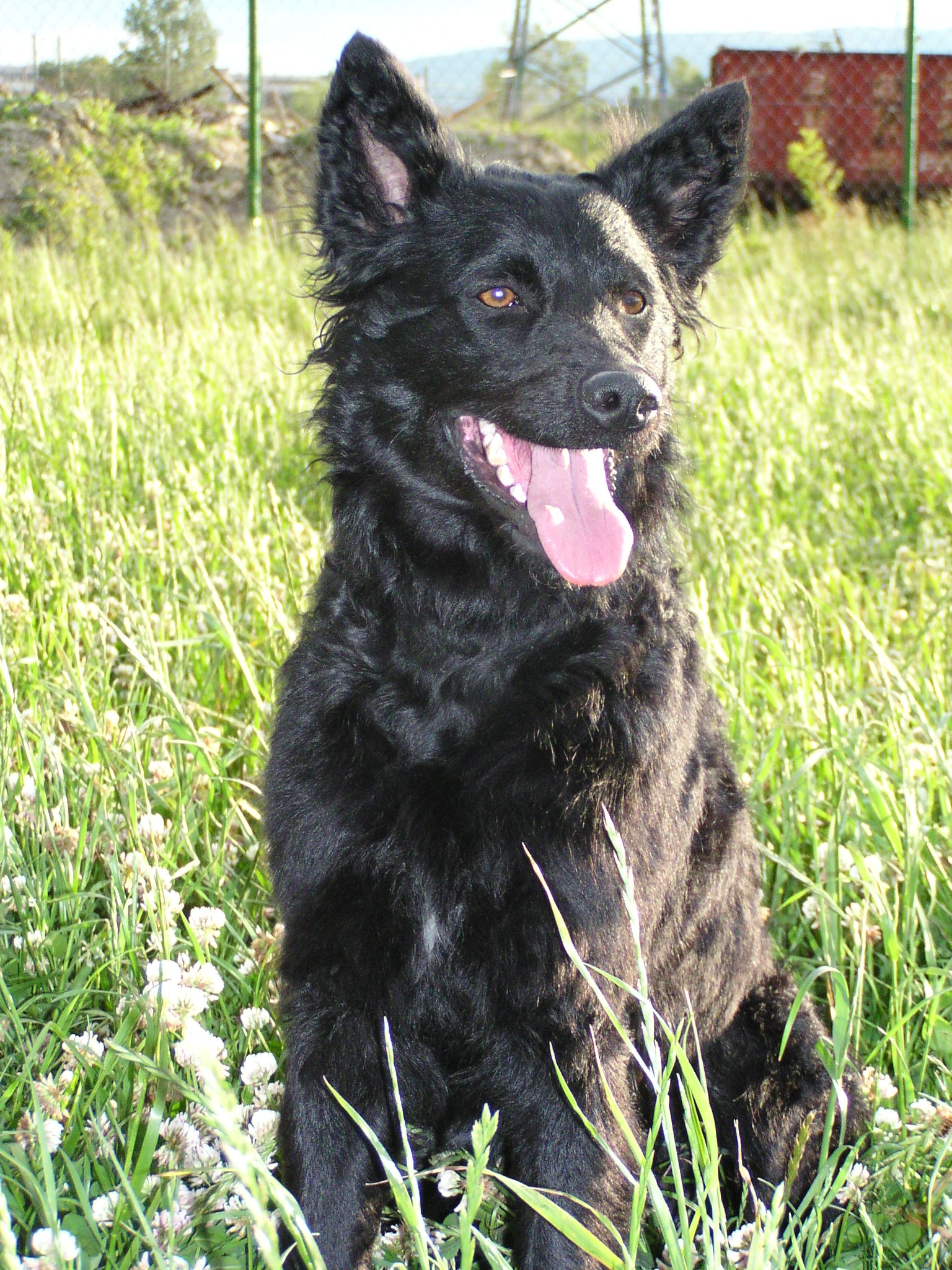 croatian sheepdog Mawlch Gera